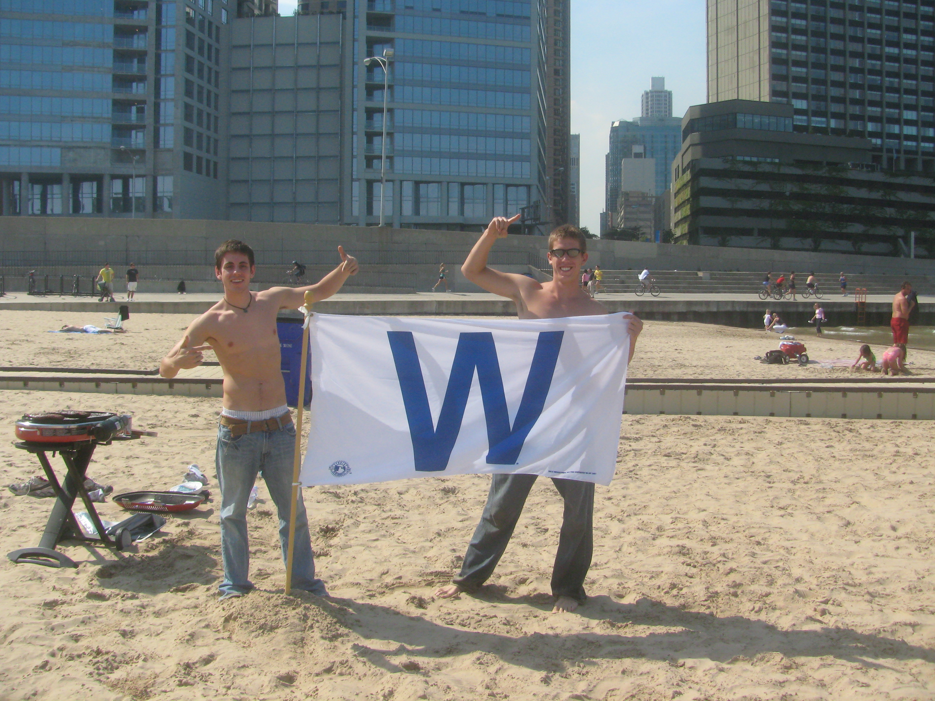 Cubs Win Flag at Ohio Street Beach in Chicago